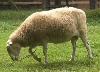 White Polled Heath or Moorschnucke, a rare sheep breed from North Germany, in an enclosure in Grevenbroich, Germany